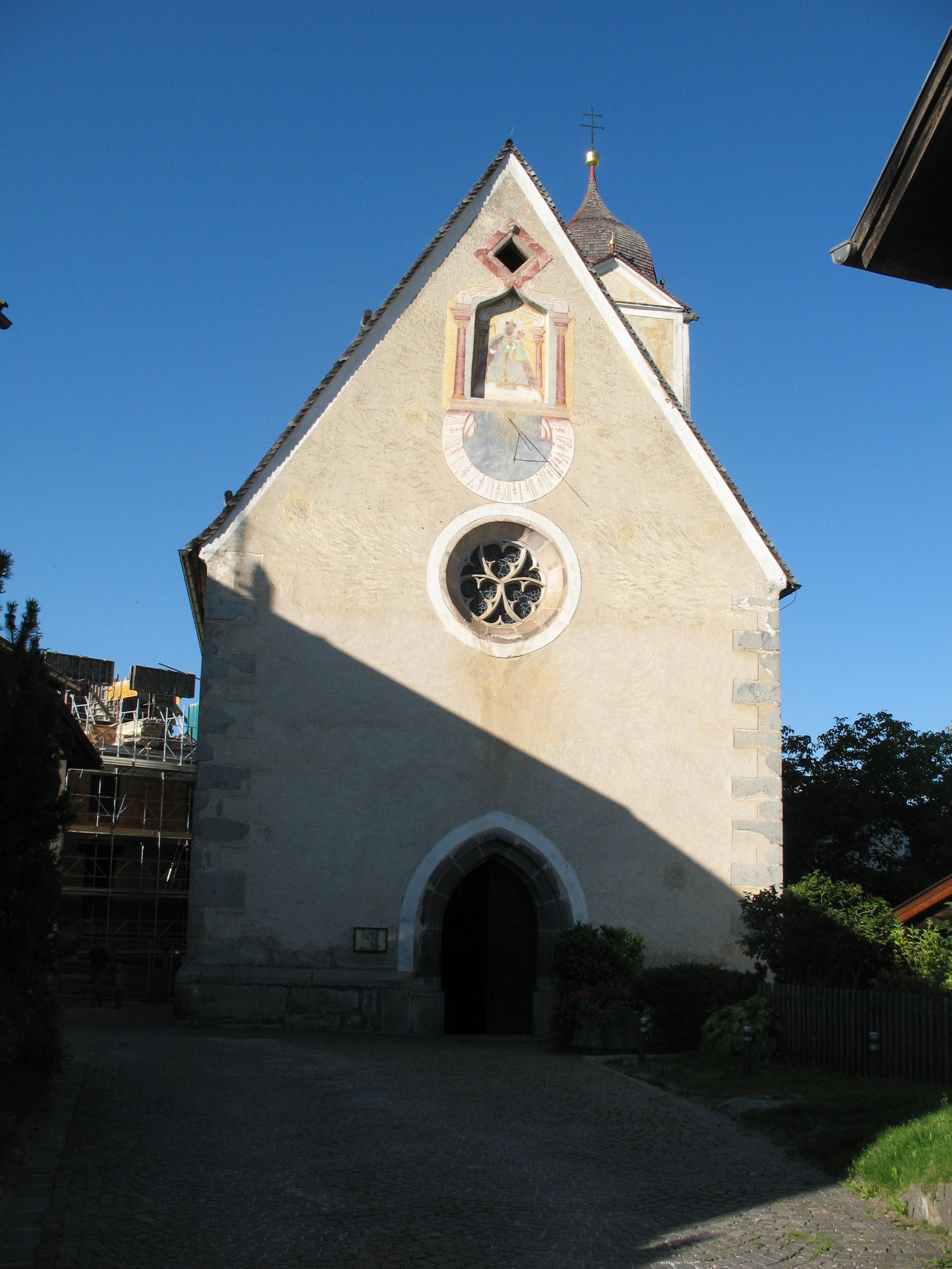 Church to "Our Lady" in Lajen - South Tyrol, build in 1482